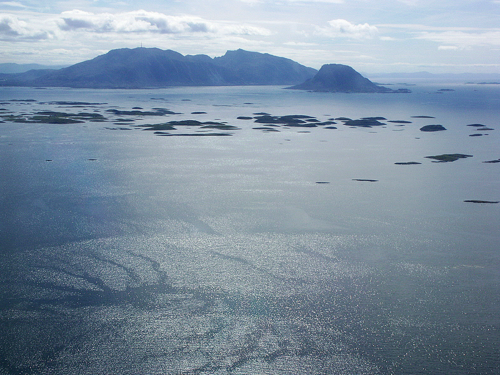 Vega, Norway, a world herritage site